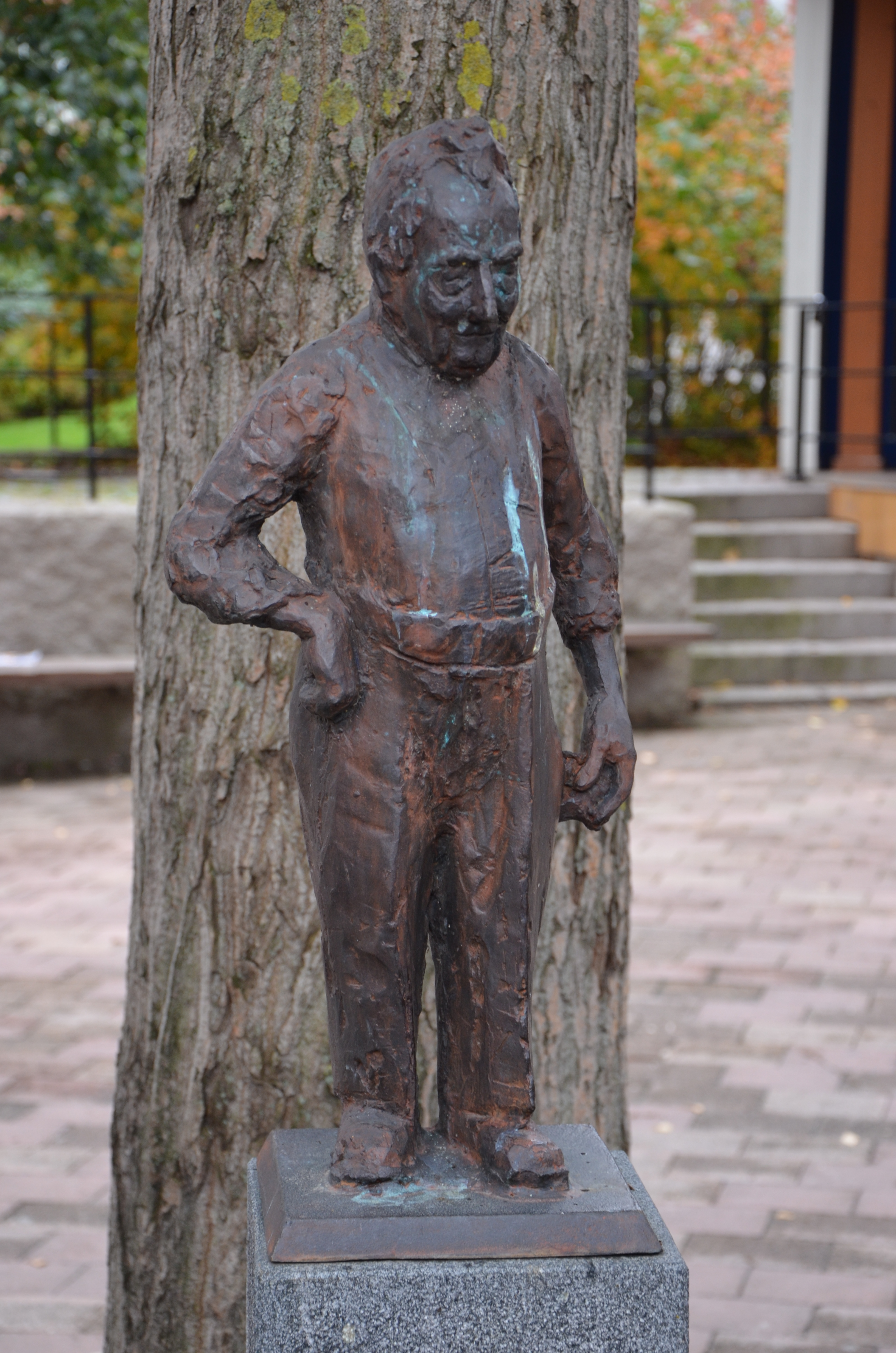 Mats Åbergs staty över Dominico Inganni, Huddinge centrum